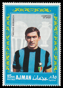 A 1968 Ajman stamp commemorating Inter Milan player Tarcisio Burgnich.